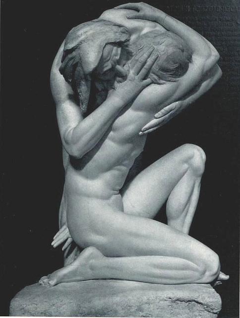 "The Prodigal Son" (1911) by George Grey Barnard, Pennsylvania State Capitol, Harrisburg, Pennsylvania.